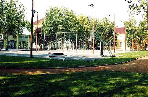 Grounds in the court of the school